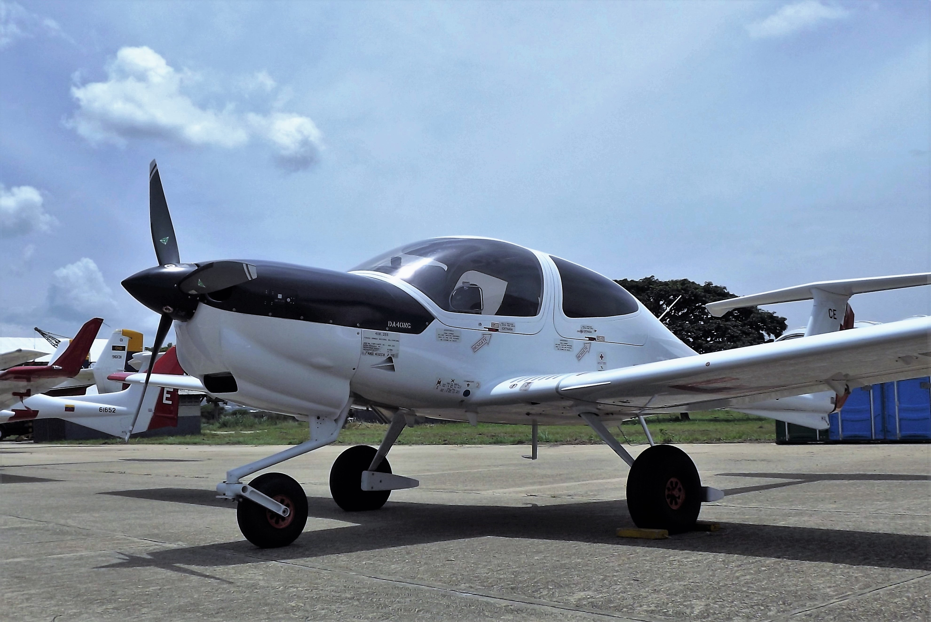 DA-40 NG Diamond Star Air Training Group No.18 of AMBV deployed Expo Aeronautical Fair "BALANDA 2016"